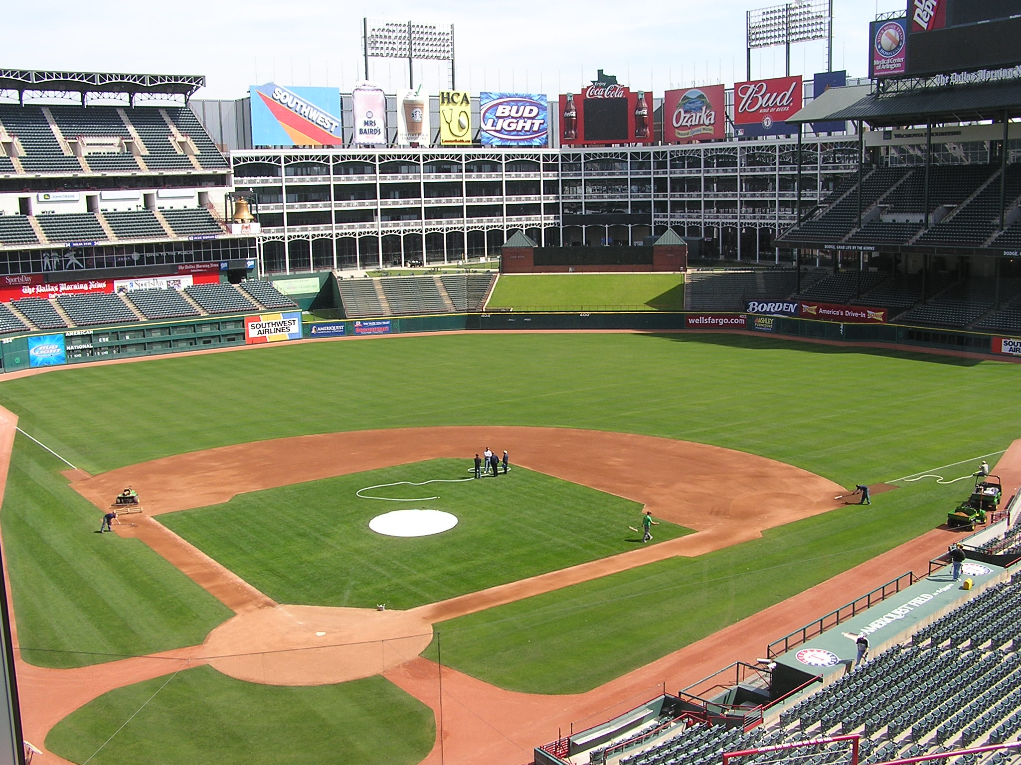 Photo taken from the press box.